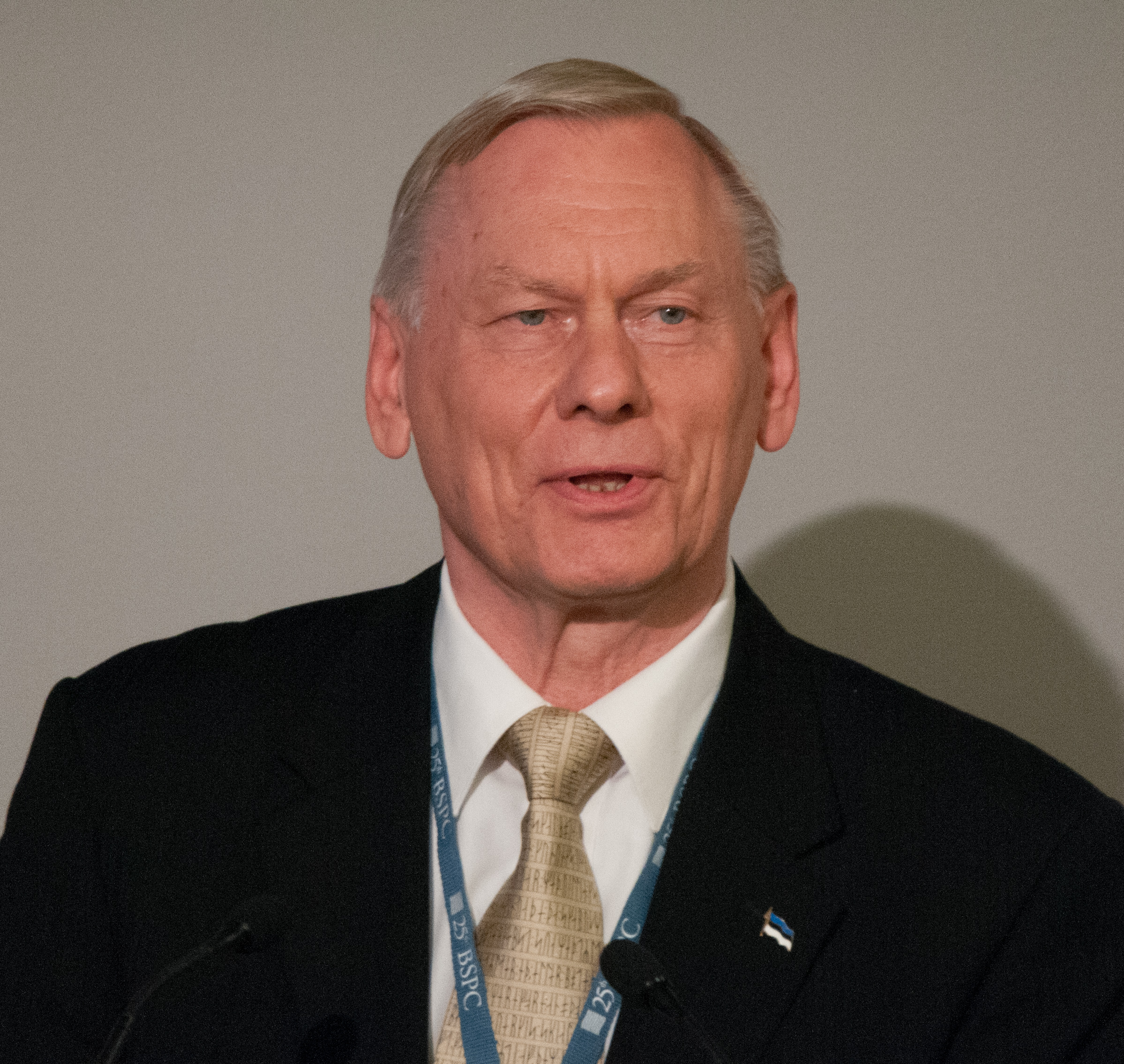 25. Baltic Sea Parliamentary Conference vom 28.-30. August 2016 in Riga. CEREMONIAL SESSION: Trivimi Velliste, Former President of the Baltic Assembly,Former member of the Standing Committee of the BSPC, Estonia